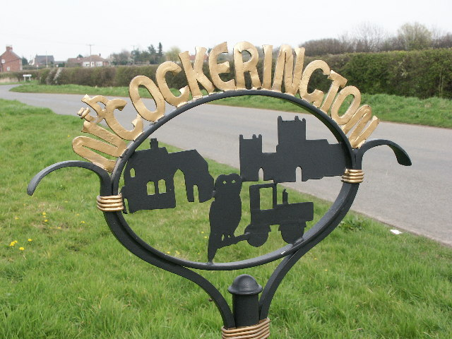 Village Signpost, Church Lane, North Cockerington. The signpost directs you to the village of North Cockerington, but don't look there for the Parish Church, it's in Alvingham alongside Alvingham Church.